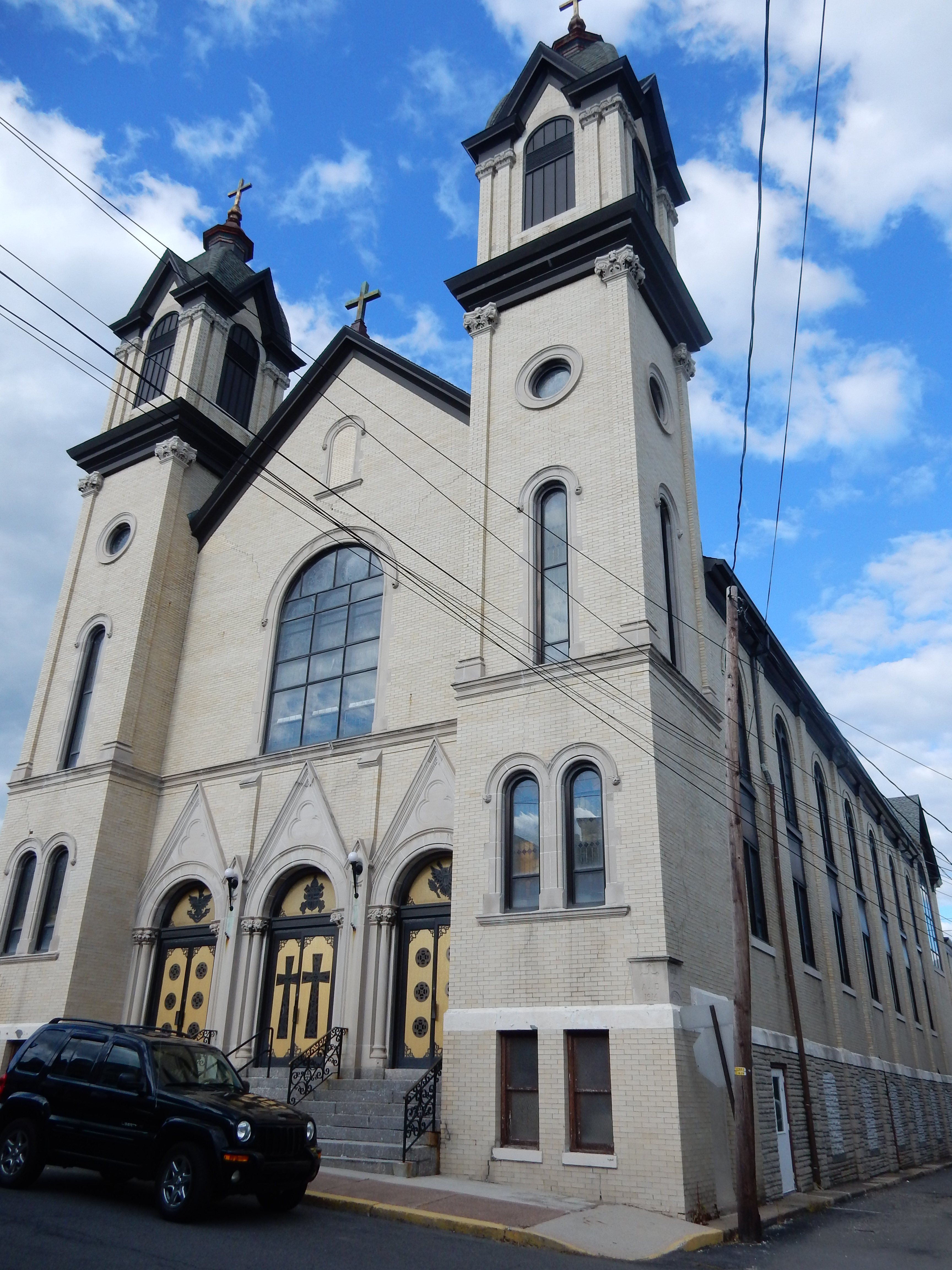 St. Casimir's Catholic Church, 229 N. Jardin St., Shenandoah, Pennsylvania.